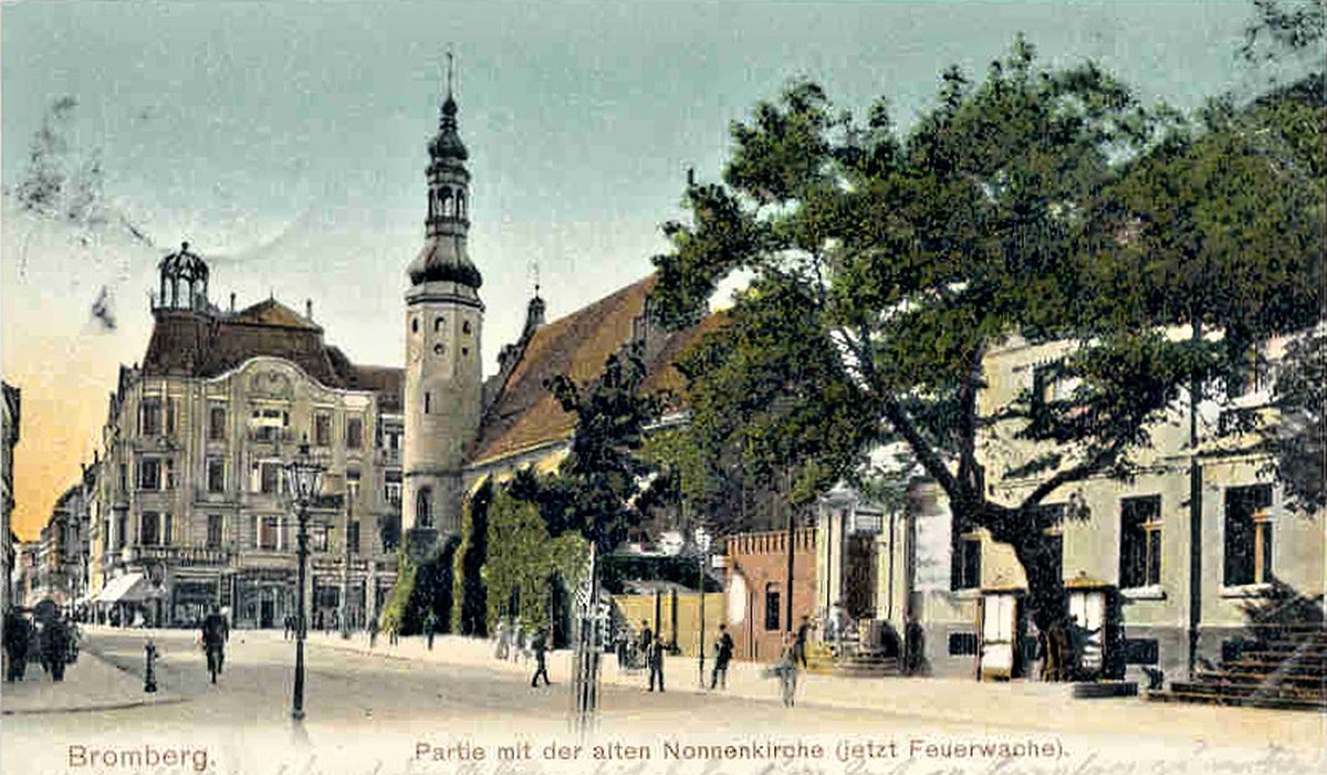 Jagiellonska street Bydgoszcz 1910